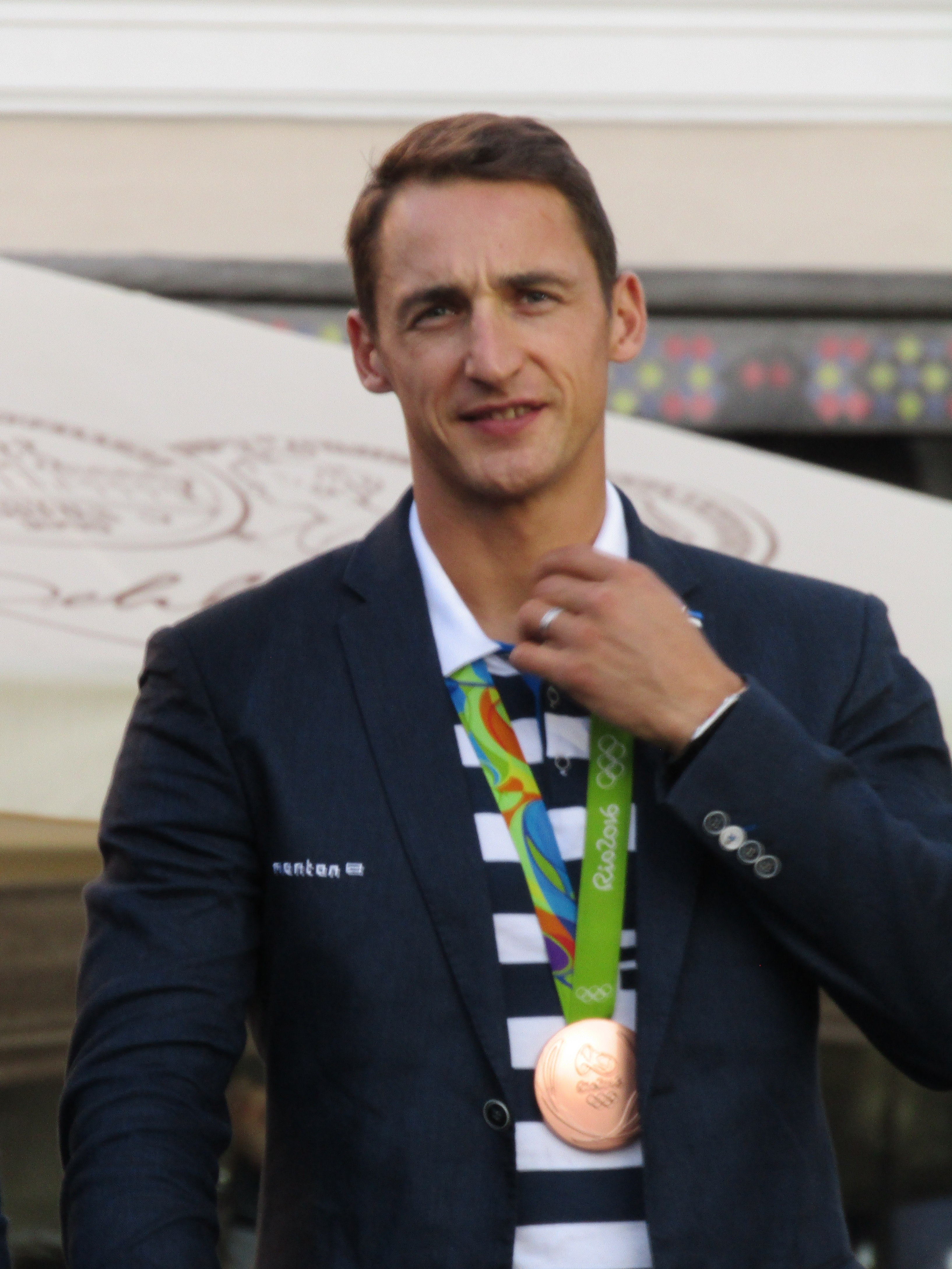 Estonian rower Allar Raja wearing his bronze medal at the homecoming for the Olympic team